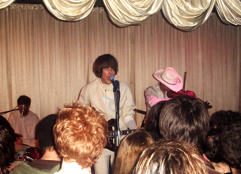 Islands playing at Club Lambi (4465 Saint-Laurent Blvd), Montreal, 17 February 2006.